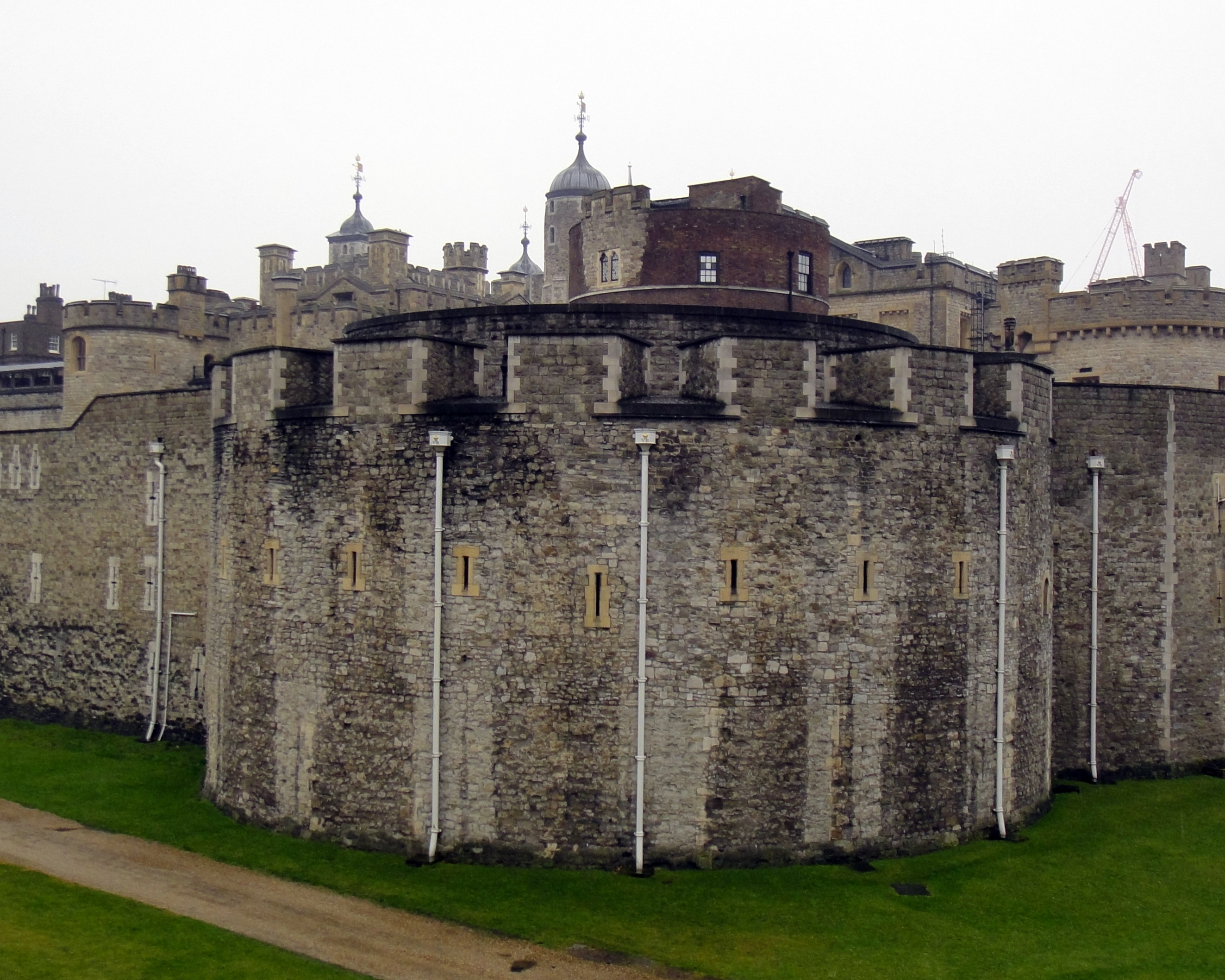 Brass Mount, Tower of London